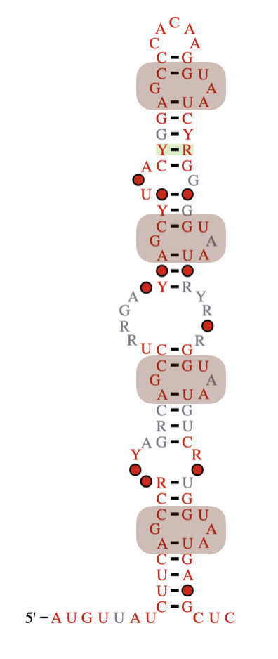 Consensus RNA secondary structure of the Coronavirus packaging signal (Rfam family RF00182). The repeat units are highlighted with boxes.